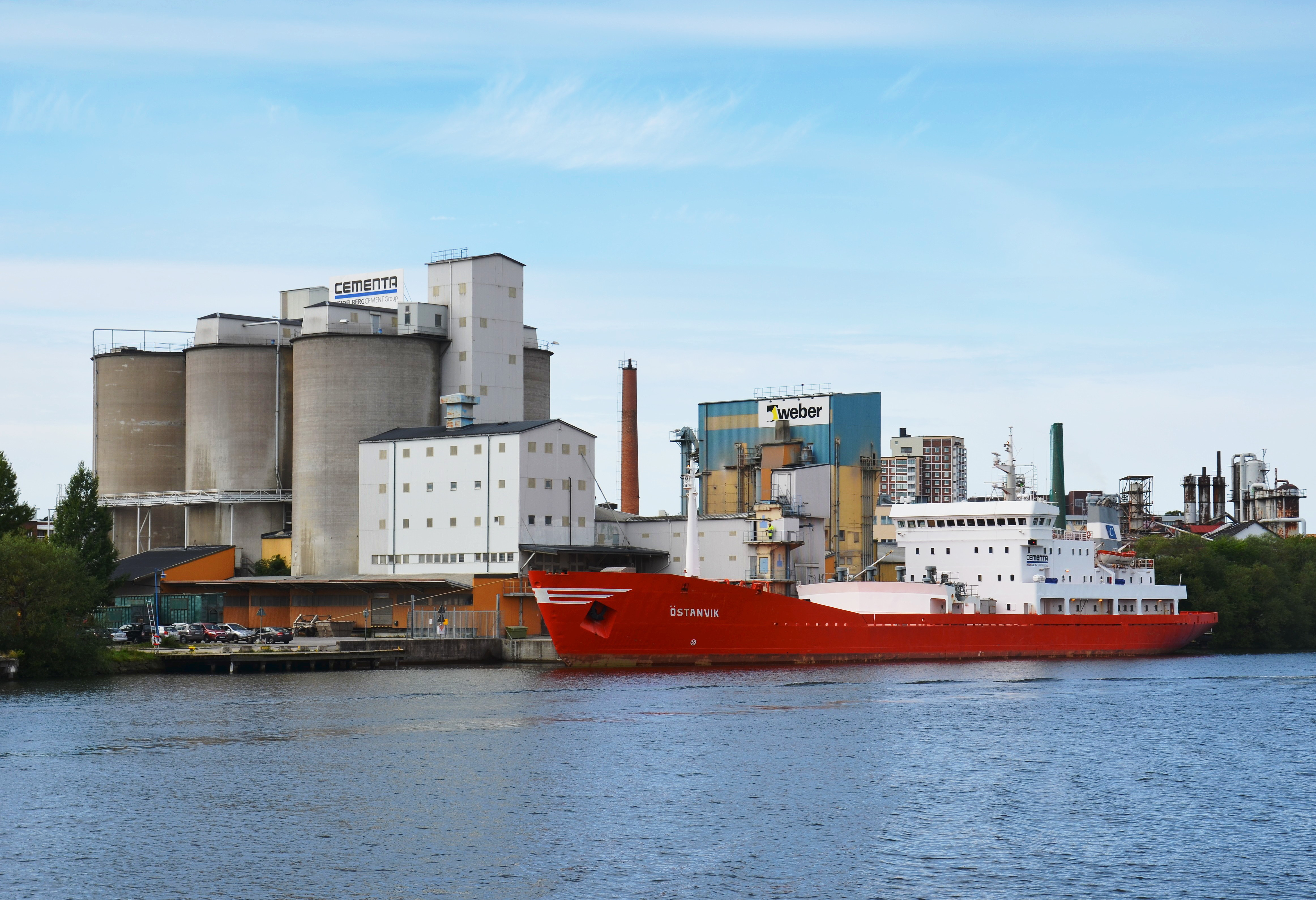 M/S Östanvik unloading cement at the cement terminal at Liljeholmen in STockholm, Sweden